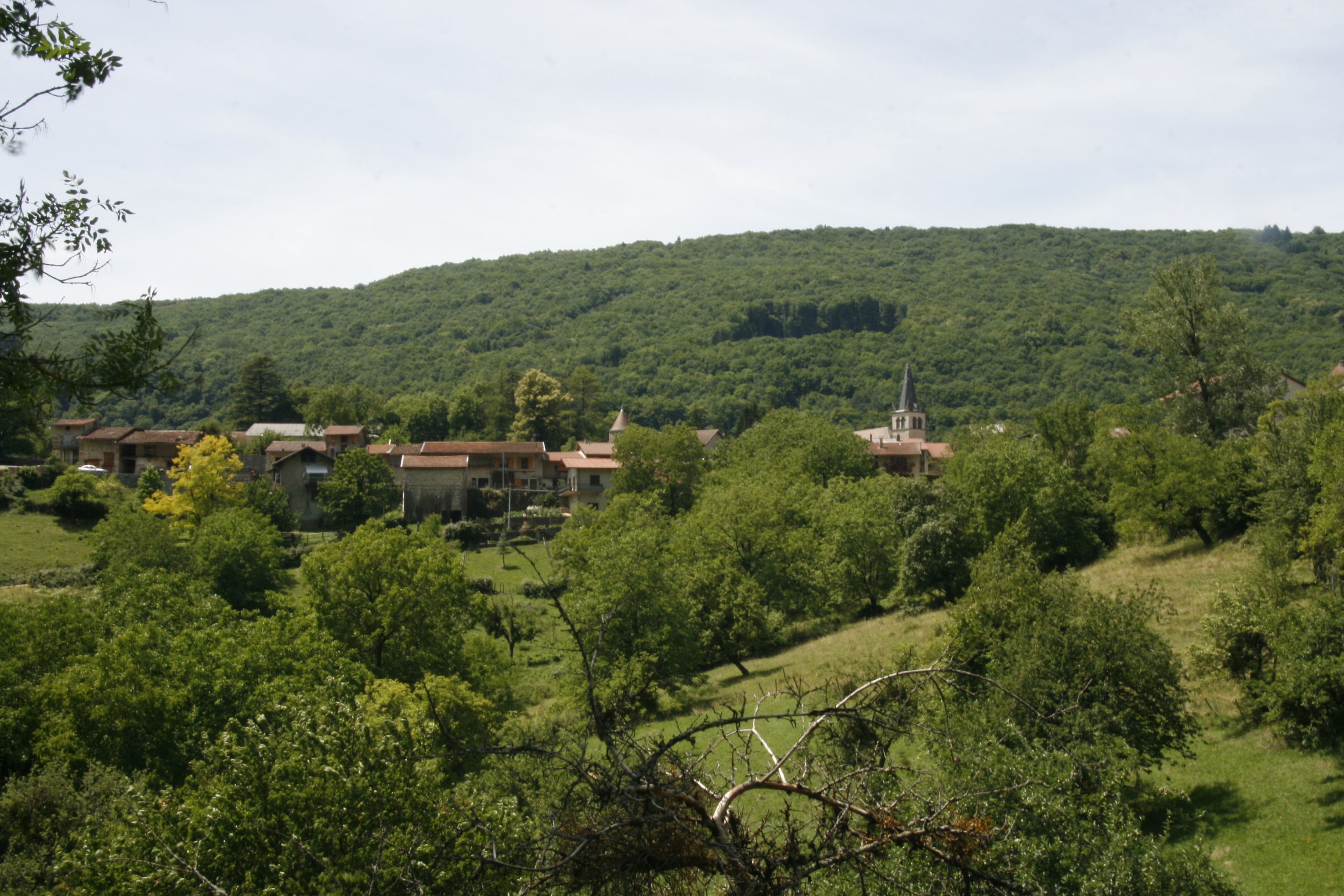 Sortie d'Oncieu route de St Rambert